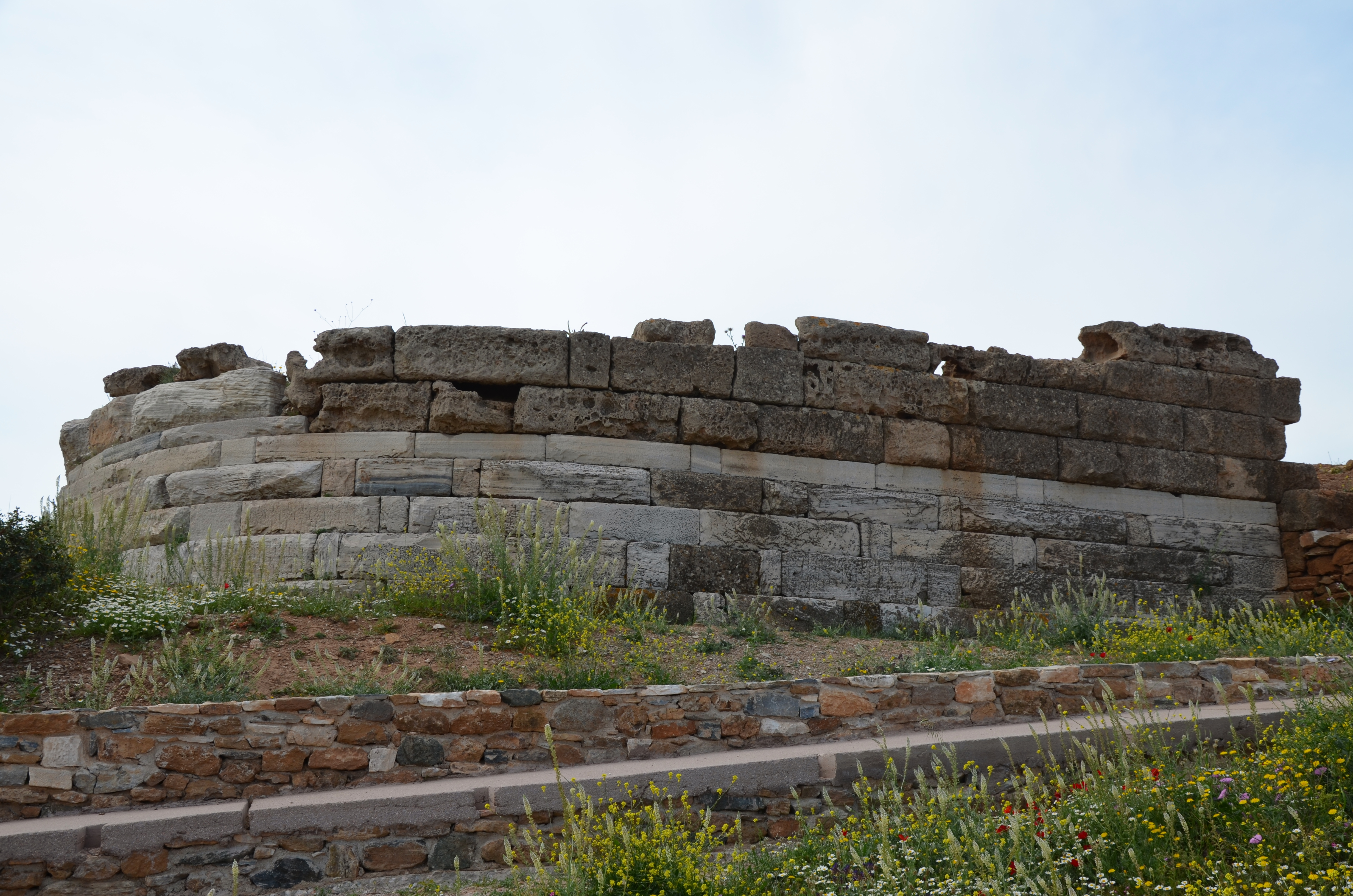 Bastion Delta of the fort from the north, Cape Sounion, Greece